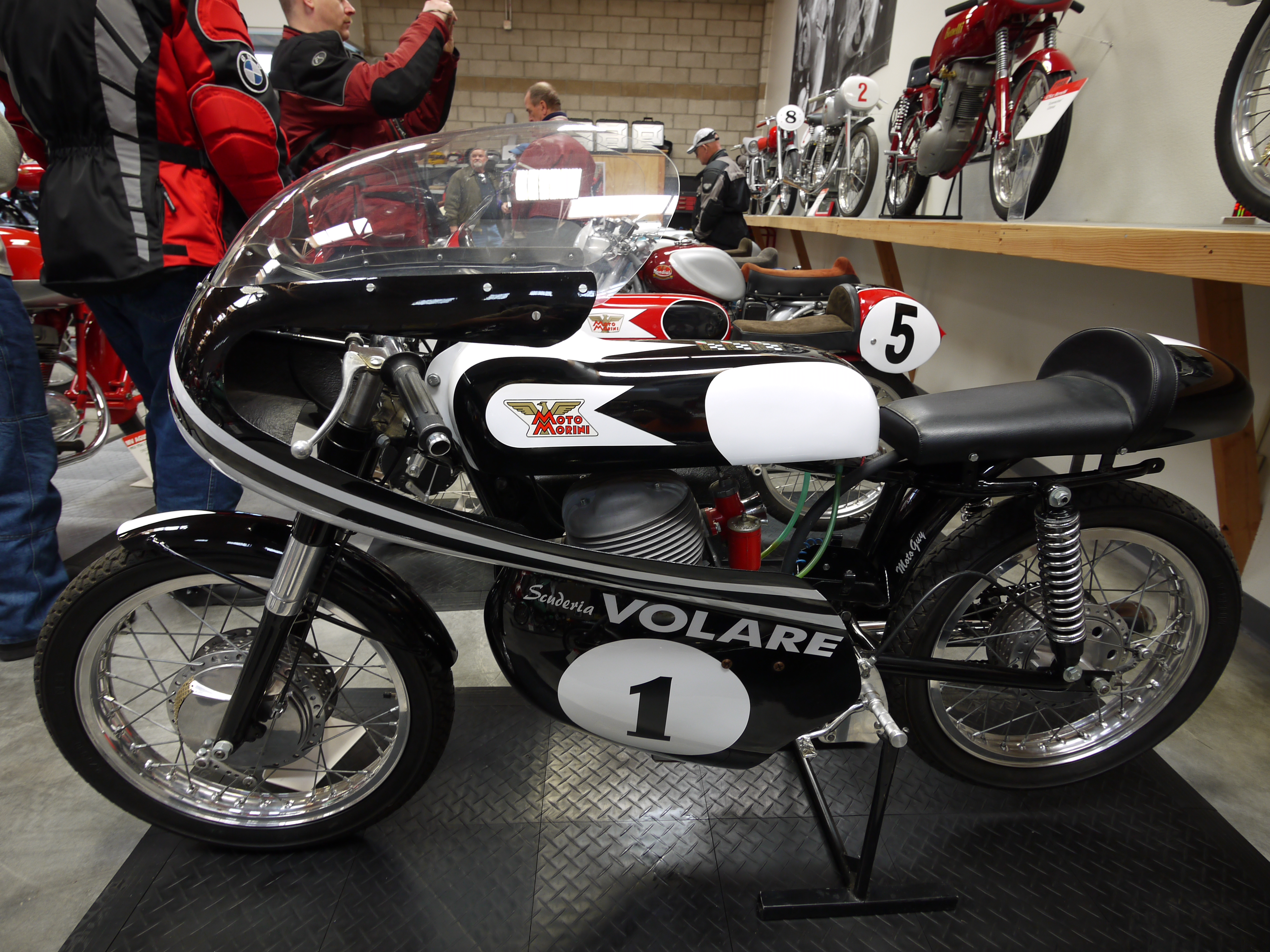 Moto Morini 175 Sprint Corsa F3, factory racer, 1959